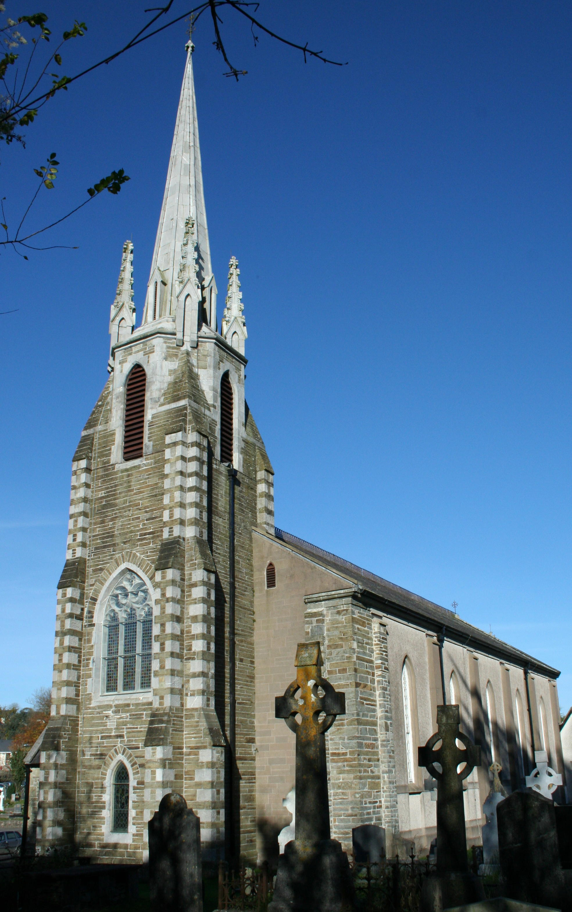 Roman Catholic Church Innishannon, County Cork Credit: A Peter Clarke image